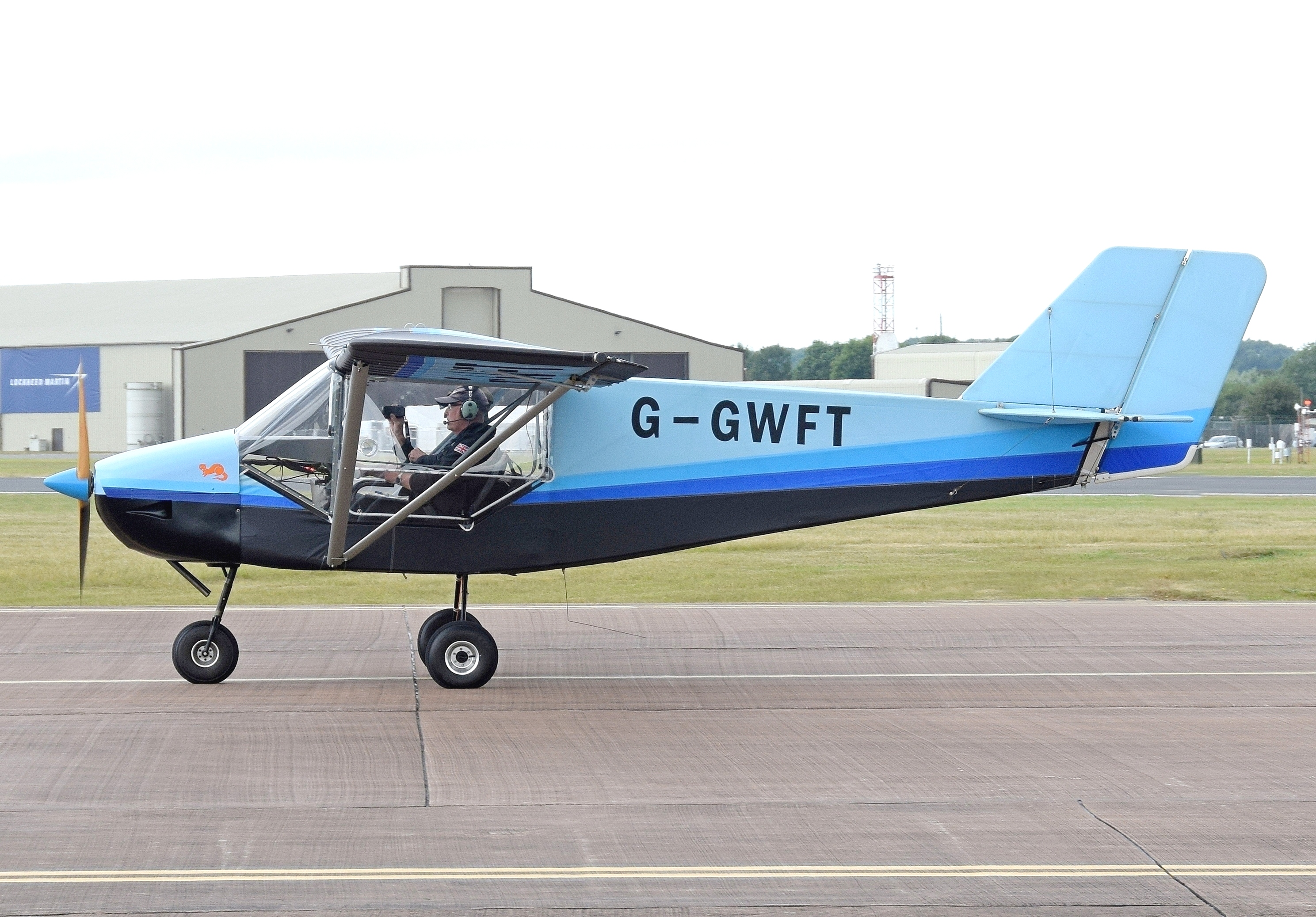 Rans S-6 Coyote II in private ownership (G-GWFT) arrives at the 2017 Royal International Air Tattoo, RAF Fairford, England. The students of Ercall Wood Technology College in Shropshire, England, built it in partnership with Boeing and the UK Royal Aeronautical Society. The challenge was to build a two-seater micro-light aircraft, and to give participating students a flight before the aircraft was sold. The aircraft was sold in late 2016.